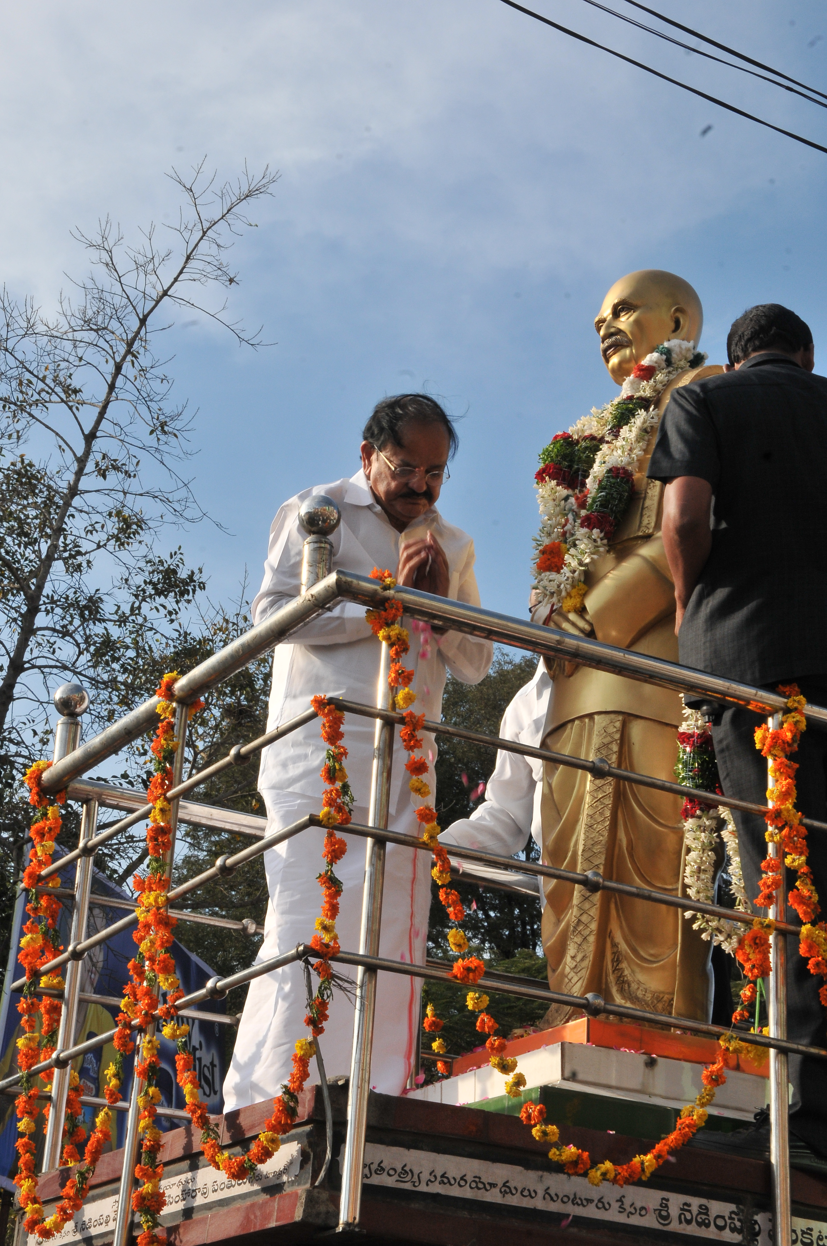 M.Venkhaih Naidu with N.V.L Statue in Guntur